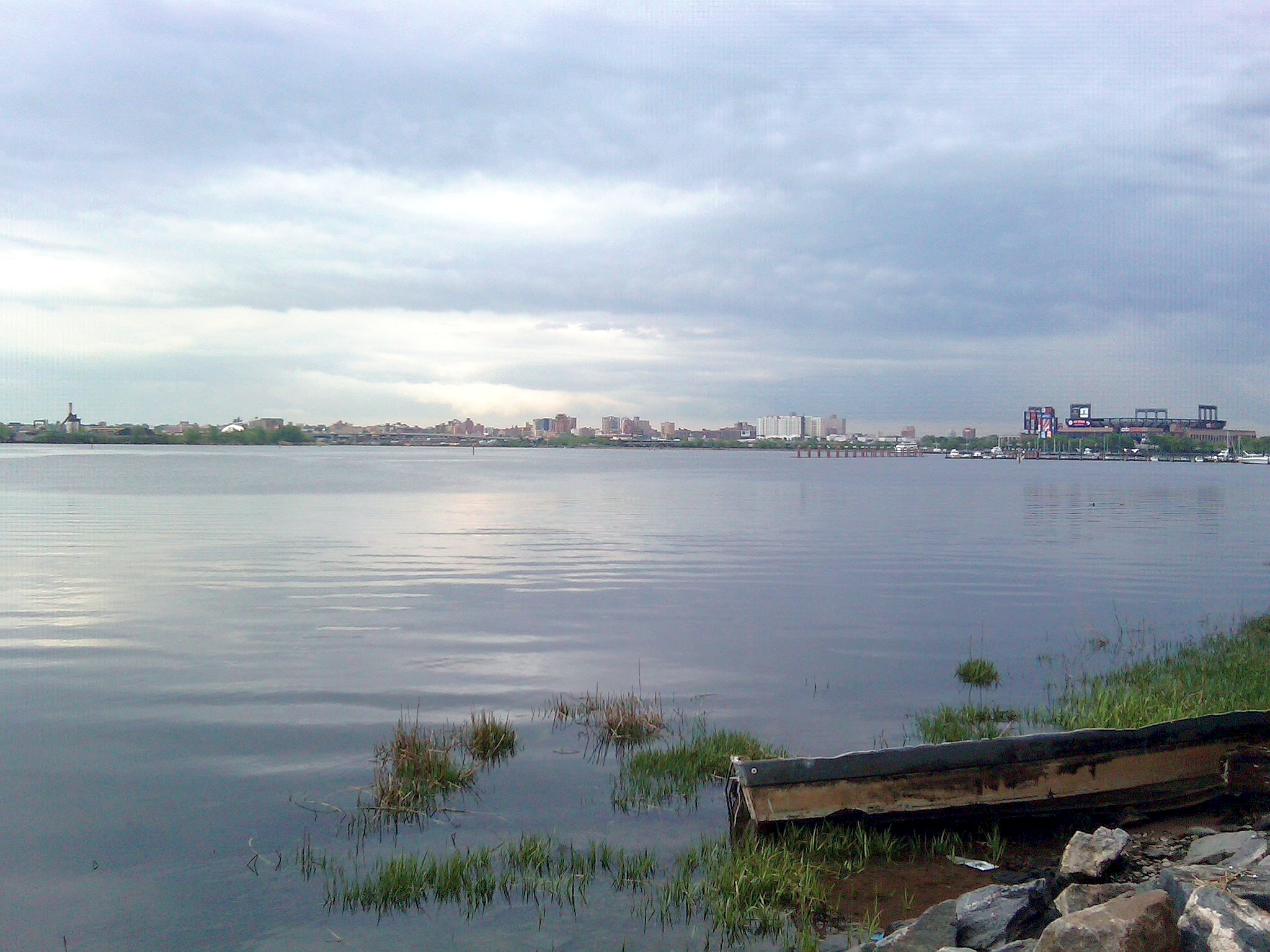 View of Flushing Bay from the promenade near LaGuardia Airport.